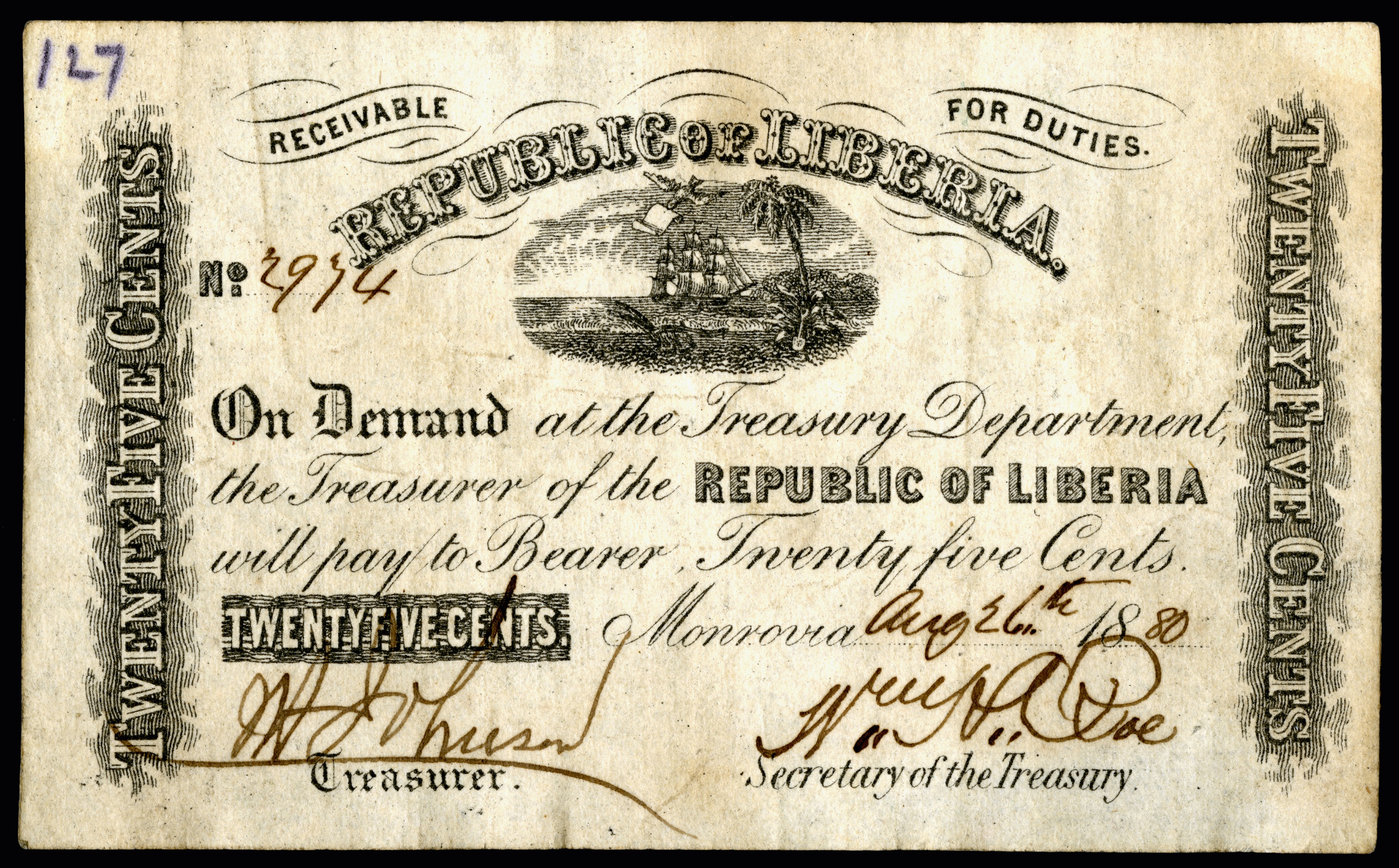 Republic of Liberia 25 cent banknote (1880) with the Liberian coat of arms on the upper obverse (blank reverse). Hand-signed by the Secretary of the Treasury and the Treasurer. Prior to the current discovery of this note in the National Numismatic Collection, the 25 cent denomination was not thought to exist.[1]